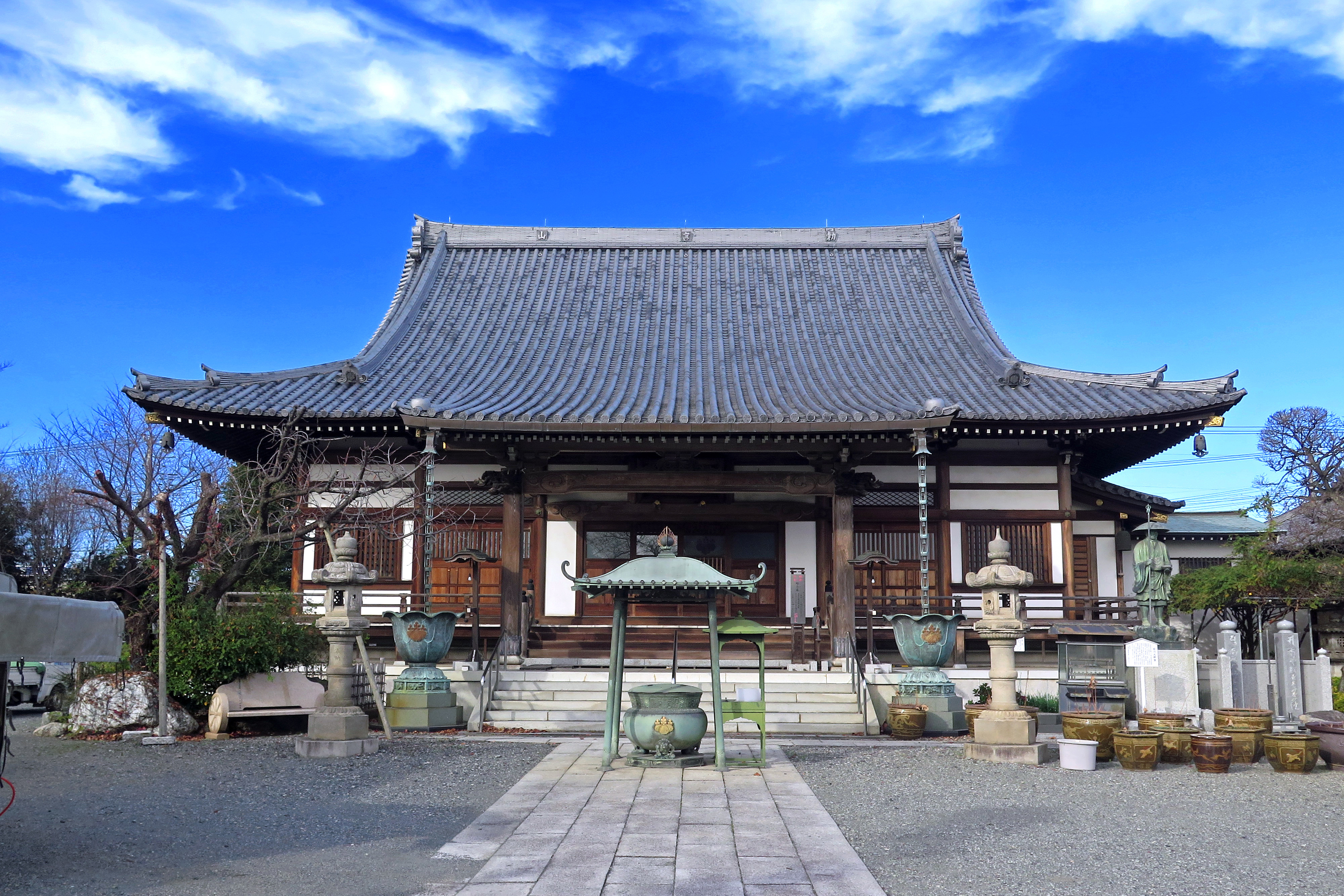 Shoho-in Main Hall Minuma Ward, Saitama-city, Saitama, Japan.